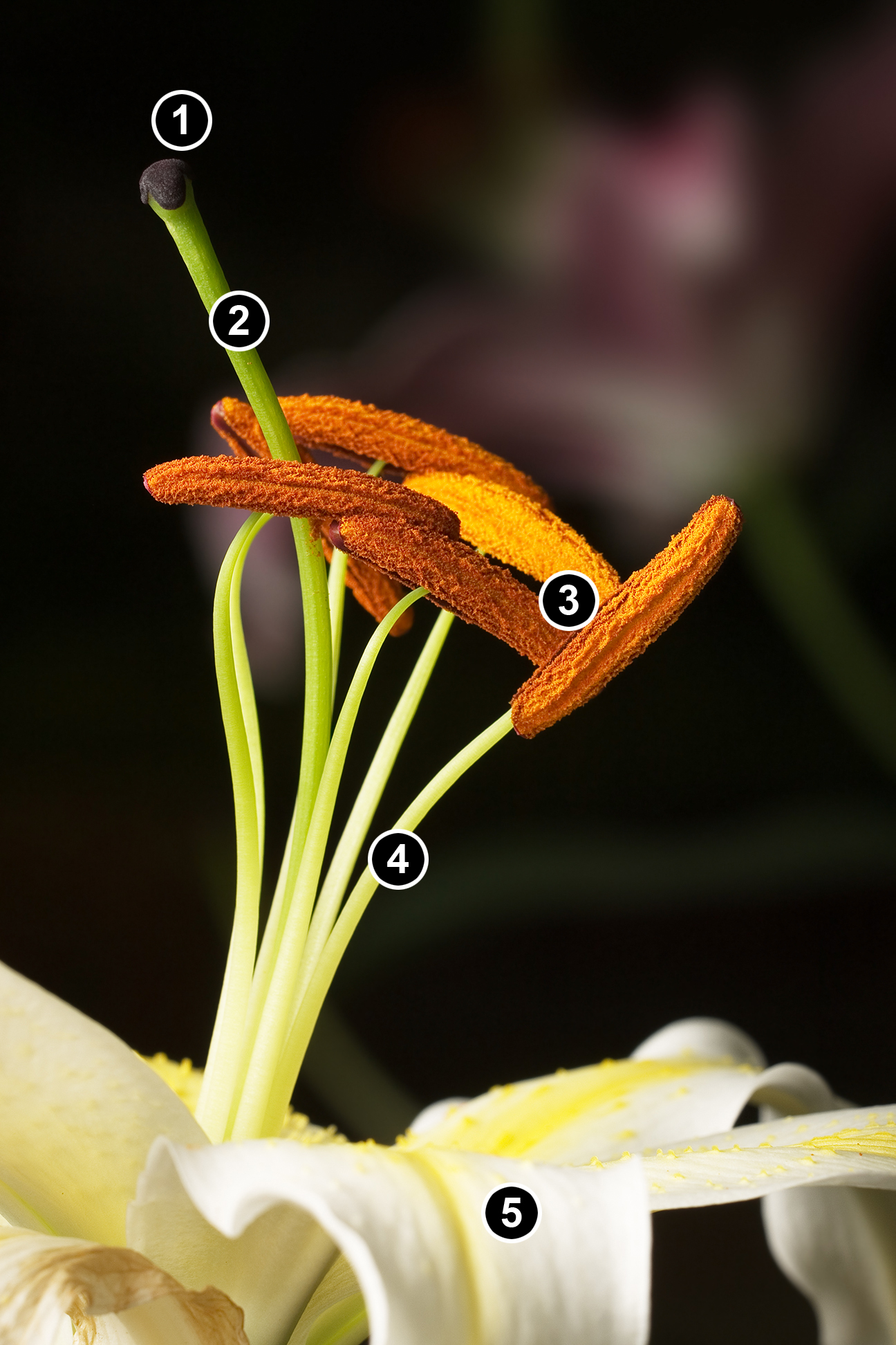 Christmas Lillium. 1. Stigma, 2. Style, 3. Anthers, 4. Filament, 5. Sepal